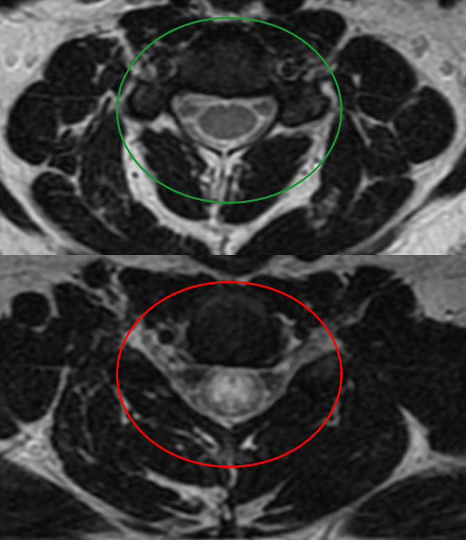 Axial T2 MRI of cervical spine demonstrating normal cord signal (green circle) and abnormal increased T2 signal in the central cord (red circle) with transverse myelitis.